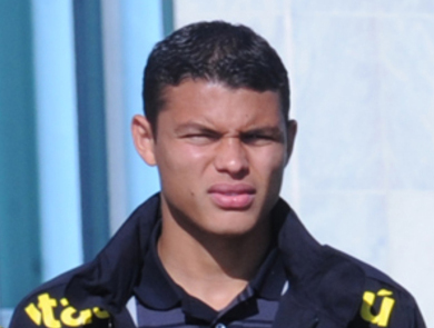 The brazilian footballer Thiago Emiliano da Silva de Souza in Brasília, 2010.